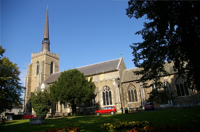 Church of St Peter and St Mary in Stowmarket, Suffolk, England. A Grade I listed medieval church.